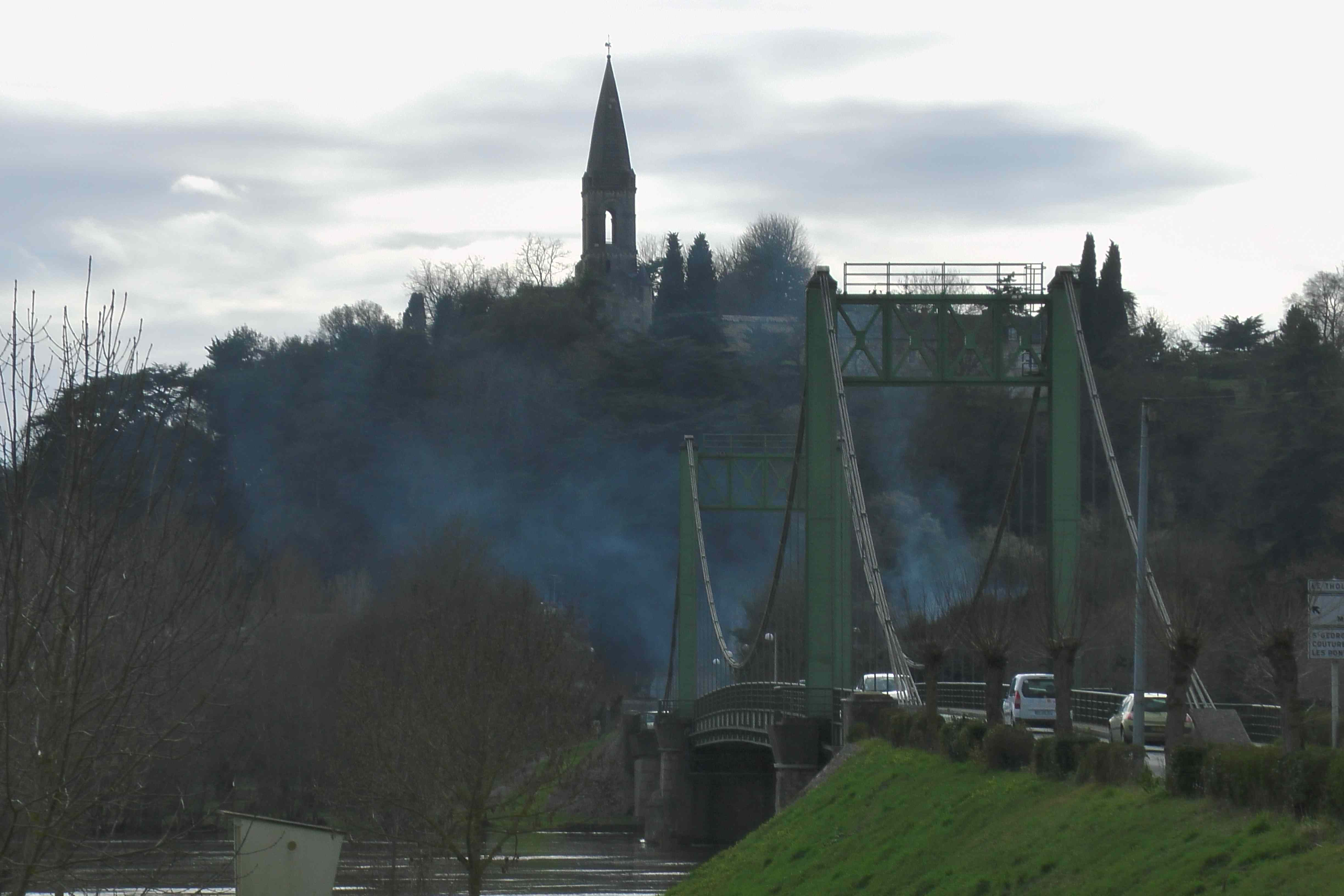 Bridge and St Eusèbe church, Gennes, 1940 battle of Saumur